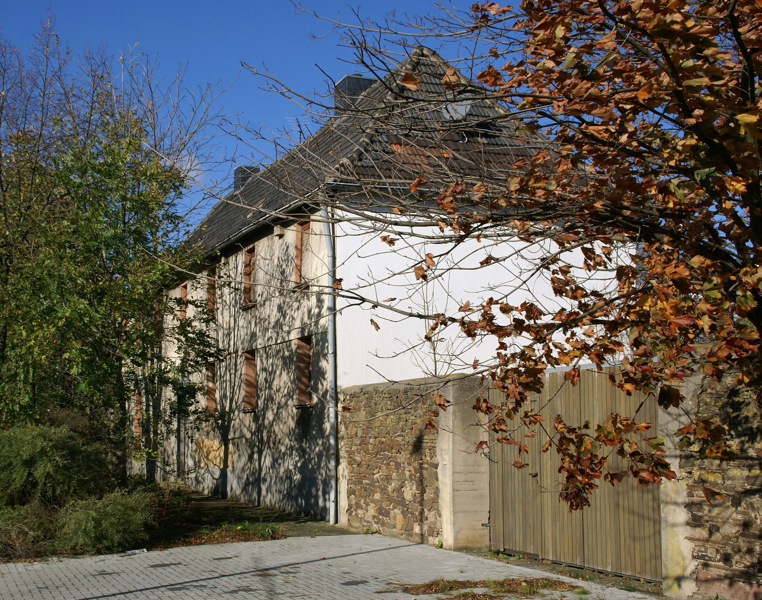 Former half-timbered estate of the monastery Maria Stern in Essig